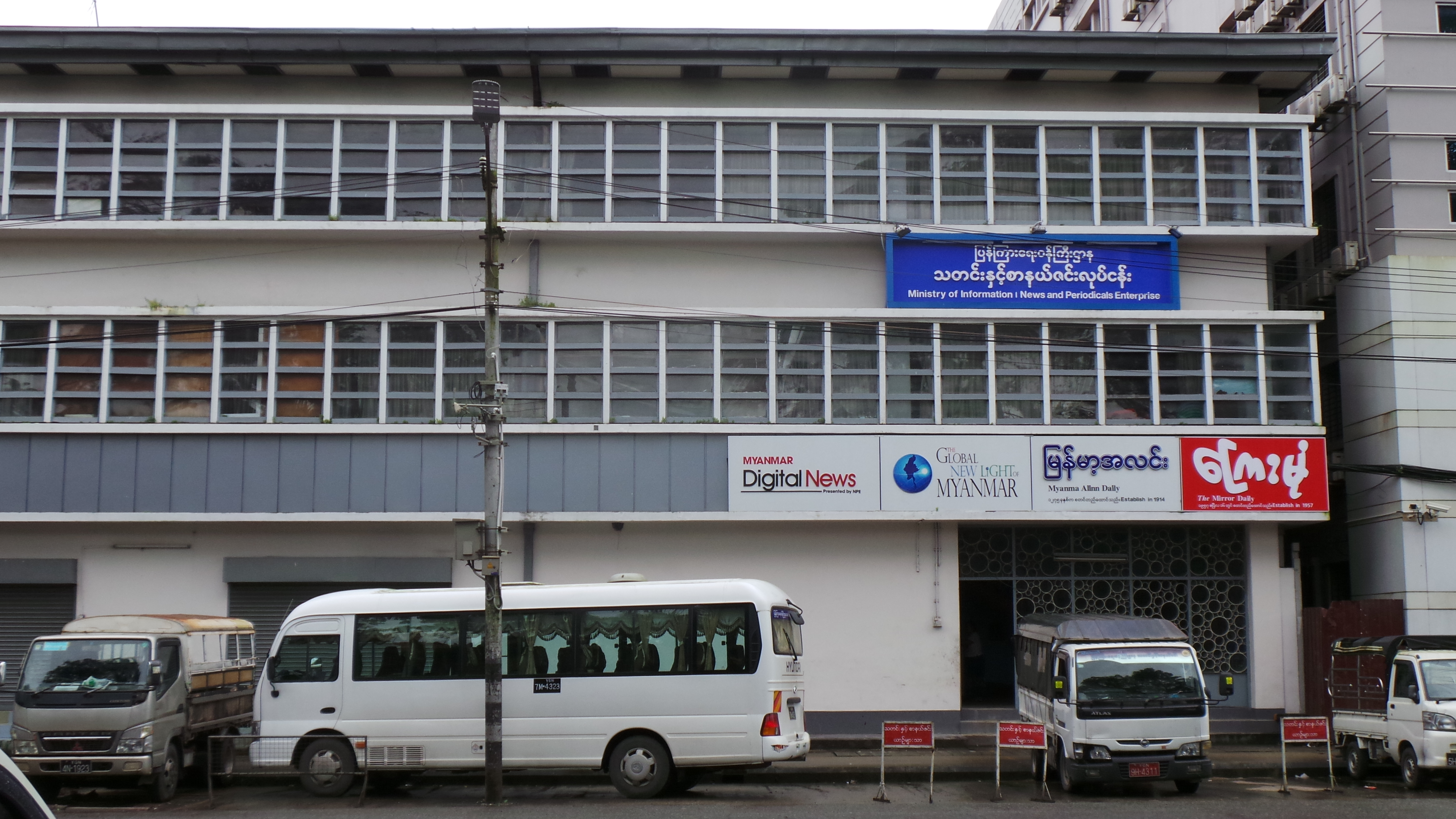 Ministry of Information, News and Periodicals Enterprise, Thein Phyu Road, Yangon မြန်မာဘာသာ: ပြန်ကြားရေးဝန်ကြီးဌာန၊ သတင်းနှင့်စာနယ်ဇင်းလုပ်ငန်း၊ သိမ်ဖြူလမ်း၊ ရန်ကုန်